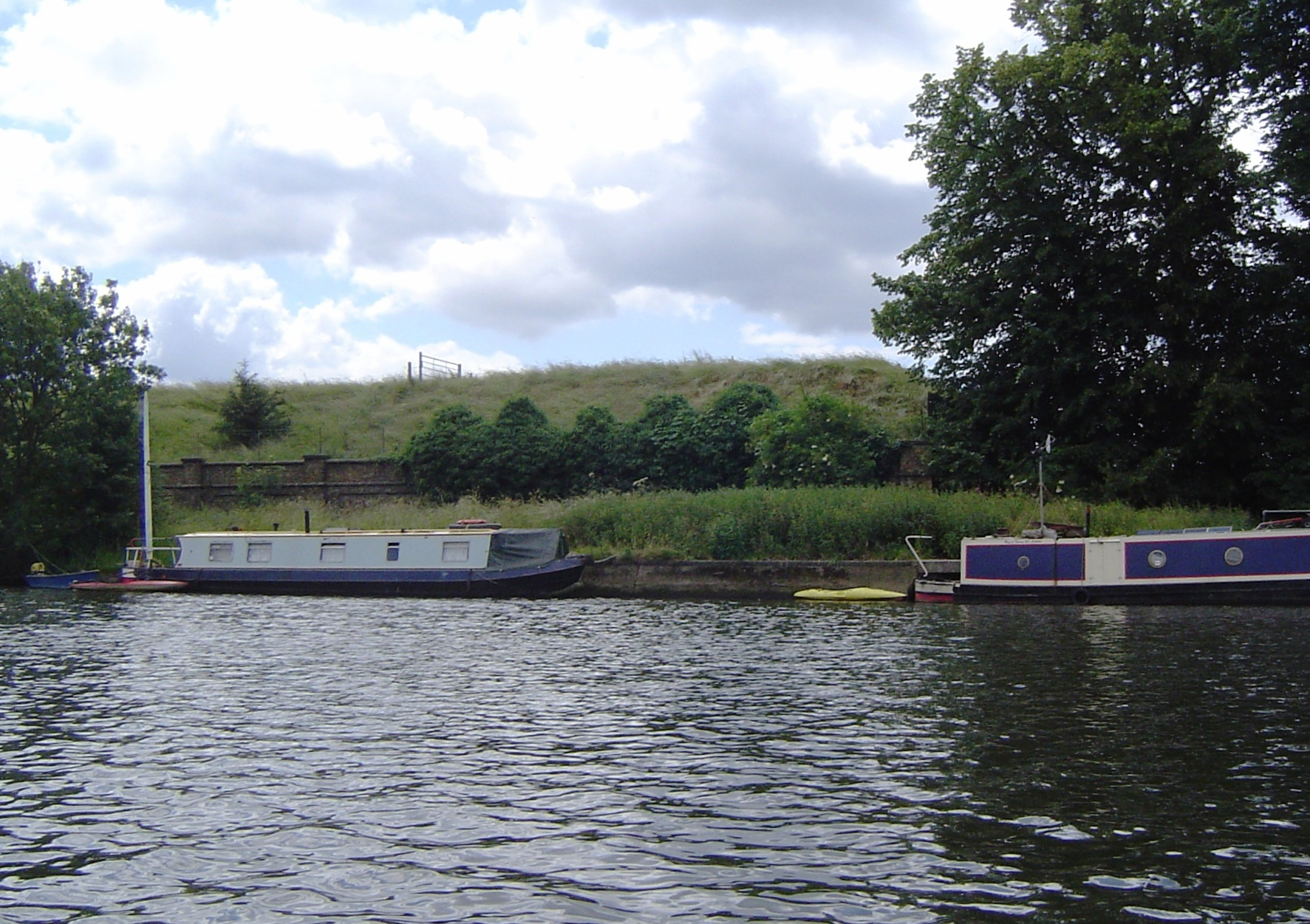 Molesey Reservoir from the River Thames